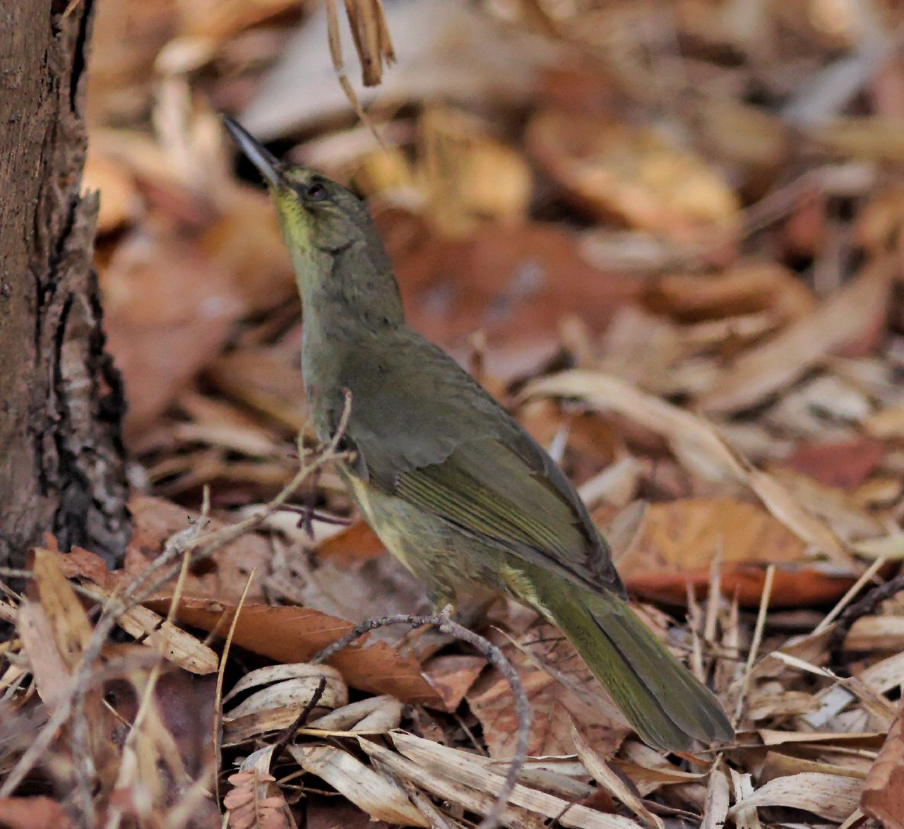 Long-billed Bernieria, syn. Long-billed Greenbul, Kirindy, Madagascar, 2005.